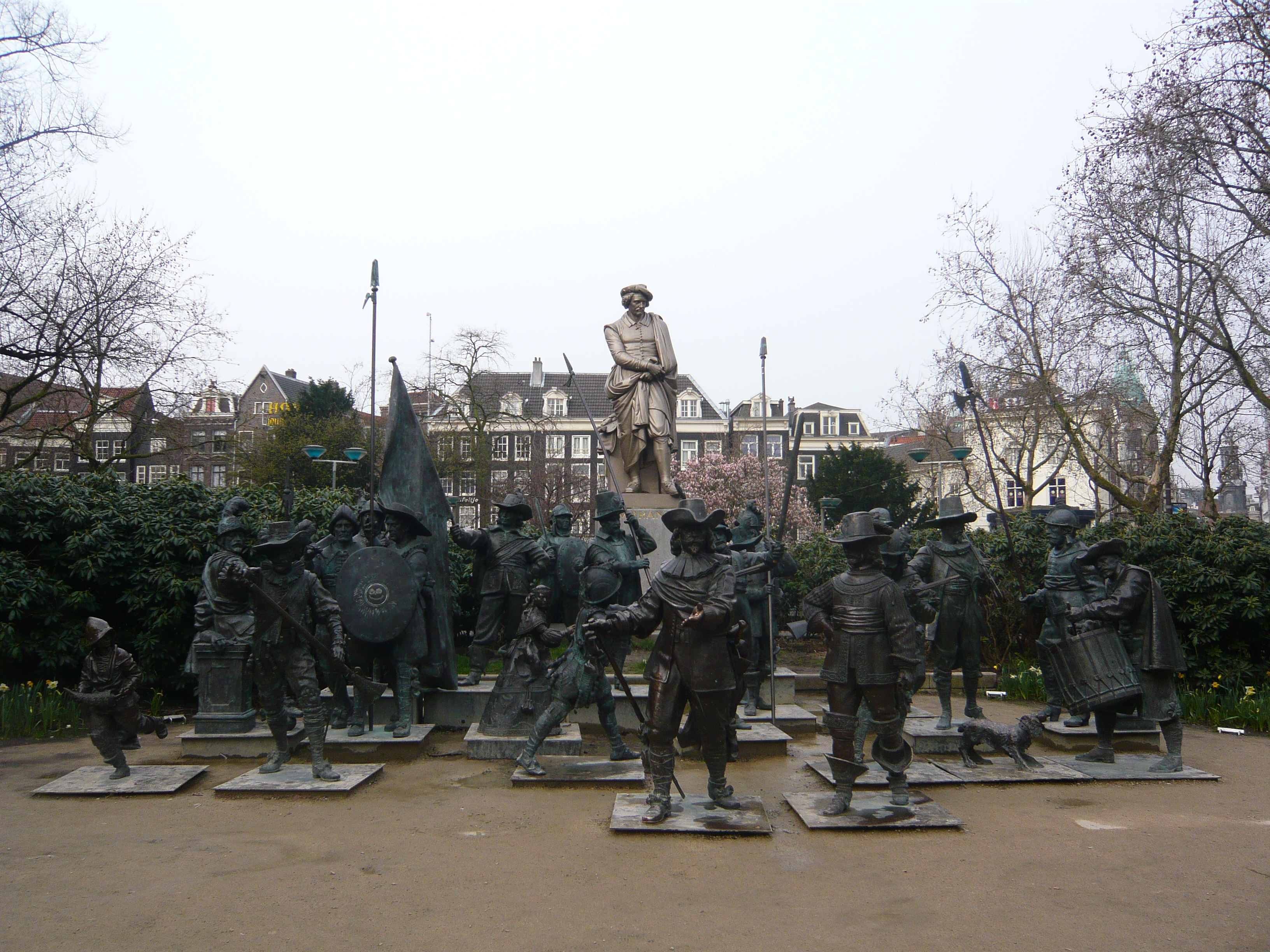 Rembrandtplein, Amsterdam, Netherlands